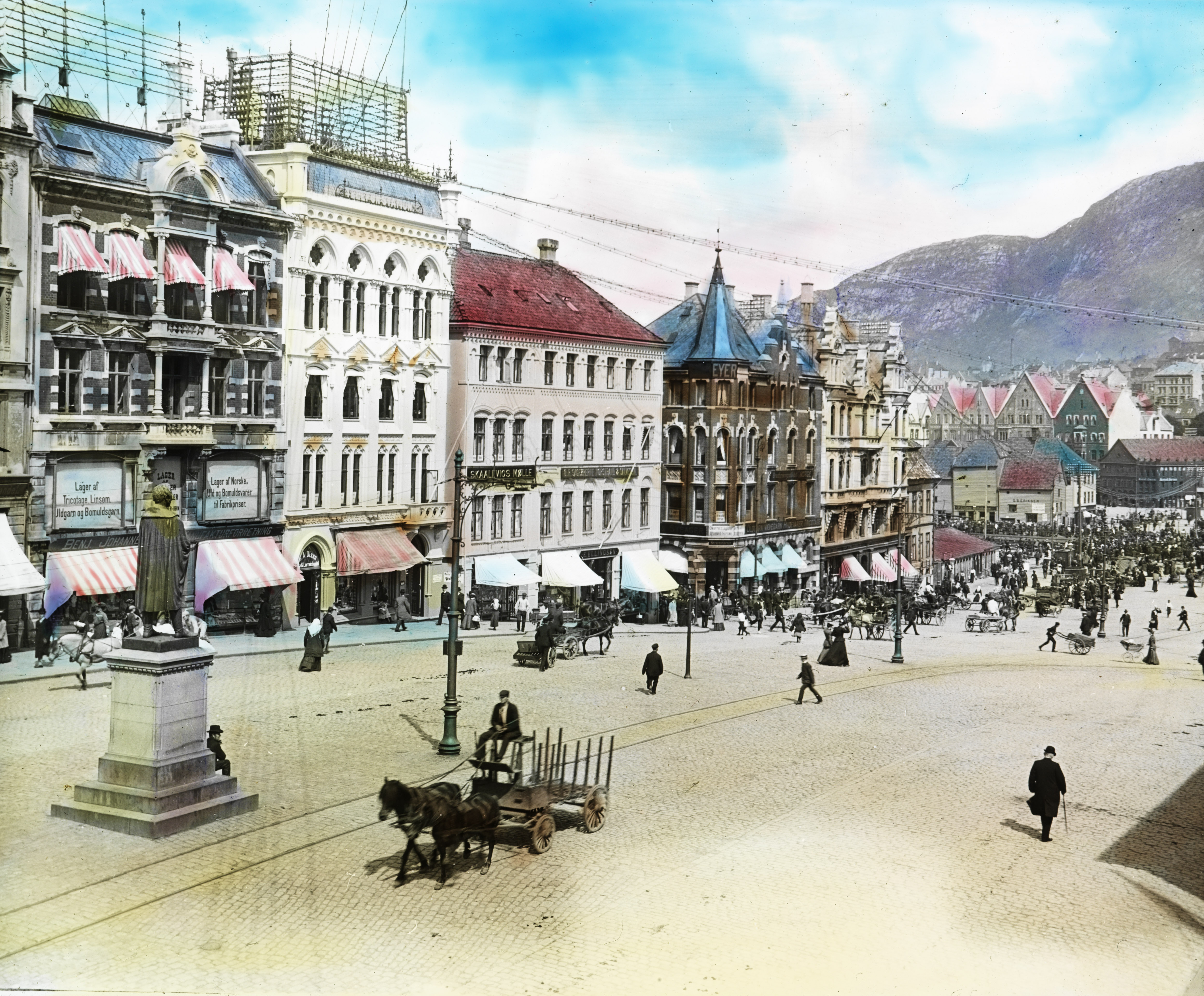 Photo of Torgallmenningen in Bergen,Norway around 1910SFFf-1992078.0028 Bergen.